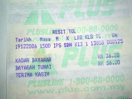 North-south expressway toll receipt